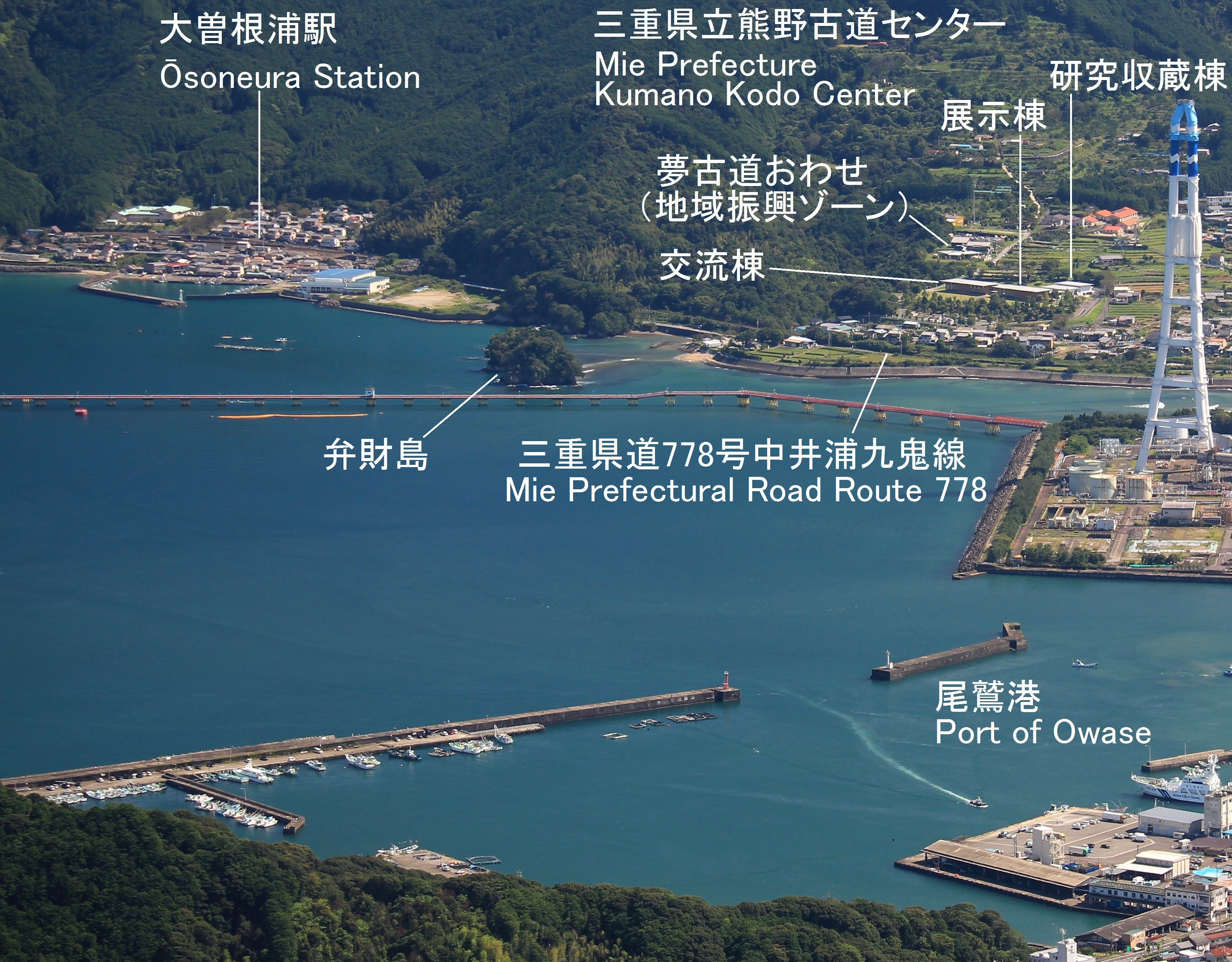 Osoneura Station, Mie Prefecture Kumano Kodo Center and Port of Owase seen from Mount Binshi in Owase Mie Prefecture, Japan.